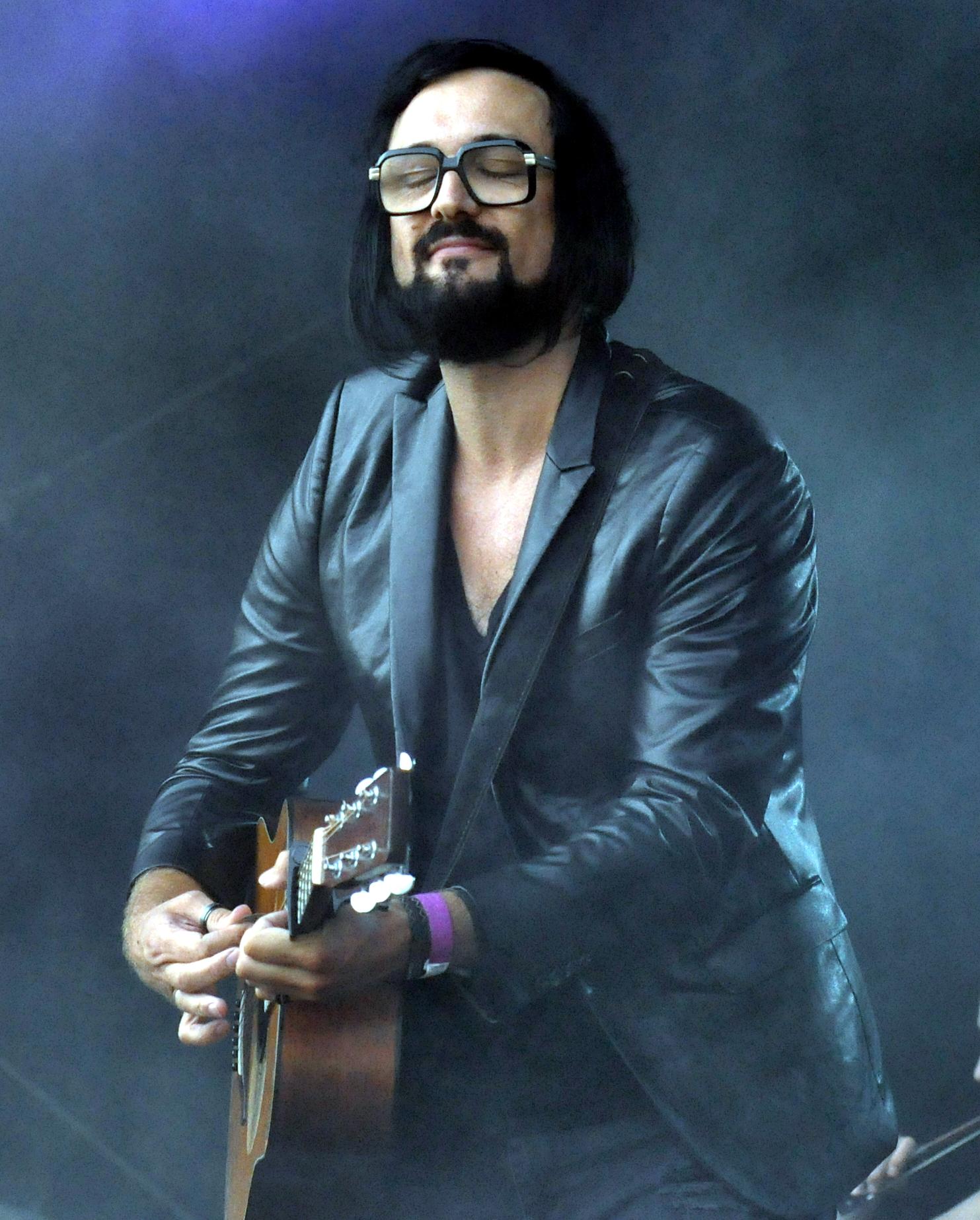 Dutch singer-songwriter Blaudzun at Rocken am Brocken 2014